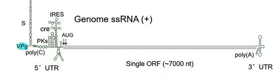 Schematic diagram of FMDV genome. FMDV genome RNA contains a single open reading frame (ORF) of about 7 kb with two alternative initiation sites. The ORF is flanked by a long 5ʹ-untranslated region (5ʹ-UTR) and a short 3ʹ-UTR. The 5ʹ-UTR is highly structured and comprises S-fragment, poly(C) tract, 3B-uridylylation site (bus) or cis-acting replication element (cre), pseudoknots (PKs), and internal ribosome entry site (IRES). Protein 3B (VPg) is covalently bound to its 5ʹ end.